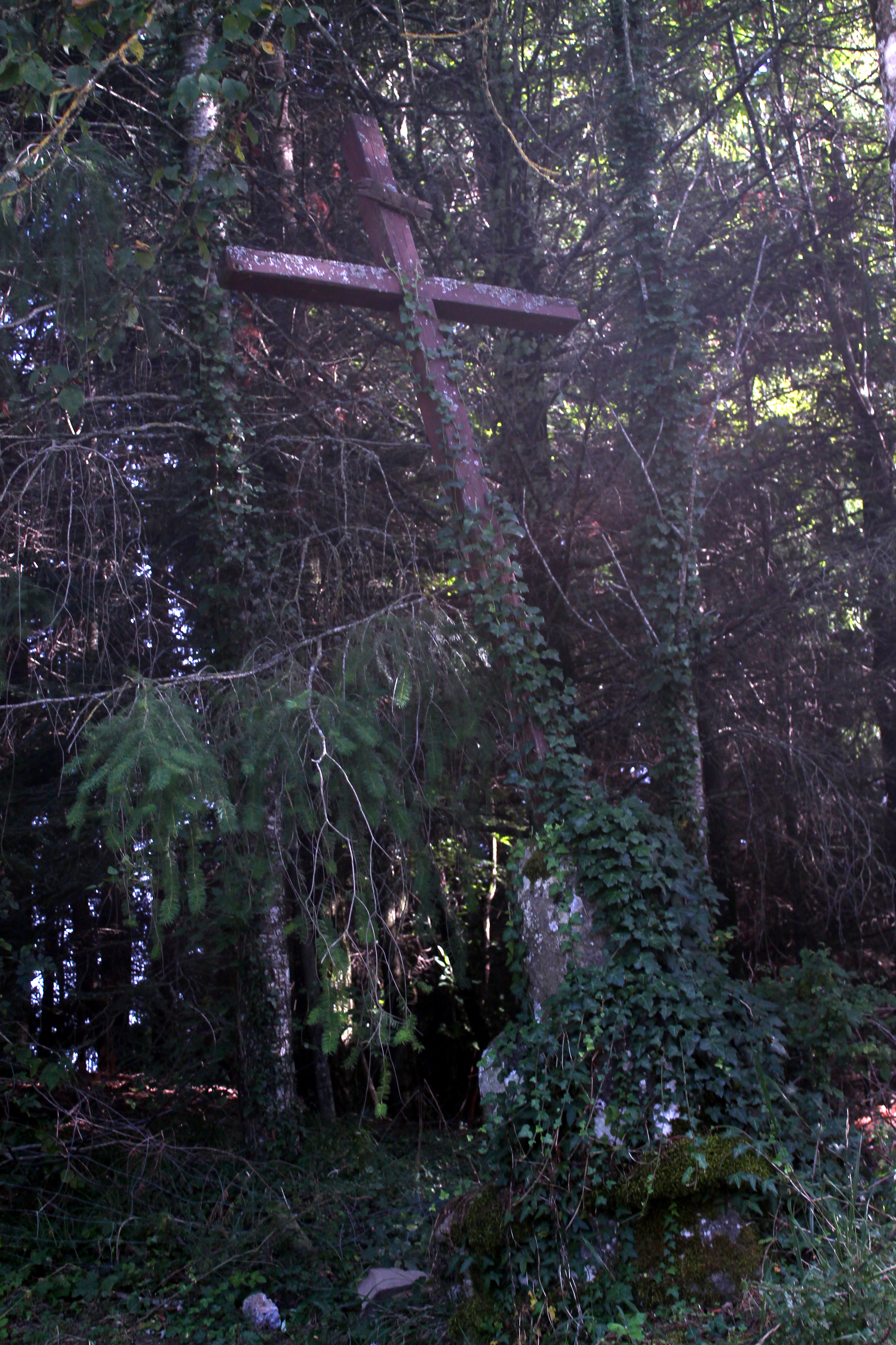 Devotional cross left by Baldassarre Audiberti in Zancona, Grosseto, Tuscany